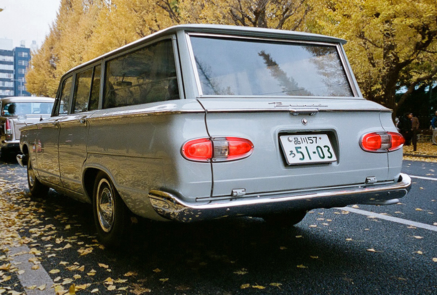 A mid-1960s Prince Gloria Estate at the Meiji Jingu Classic Car Festival, 2014.